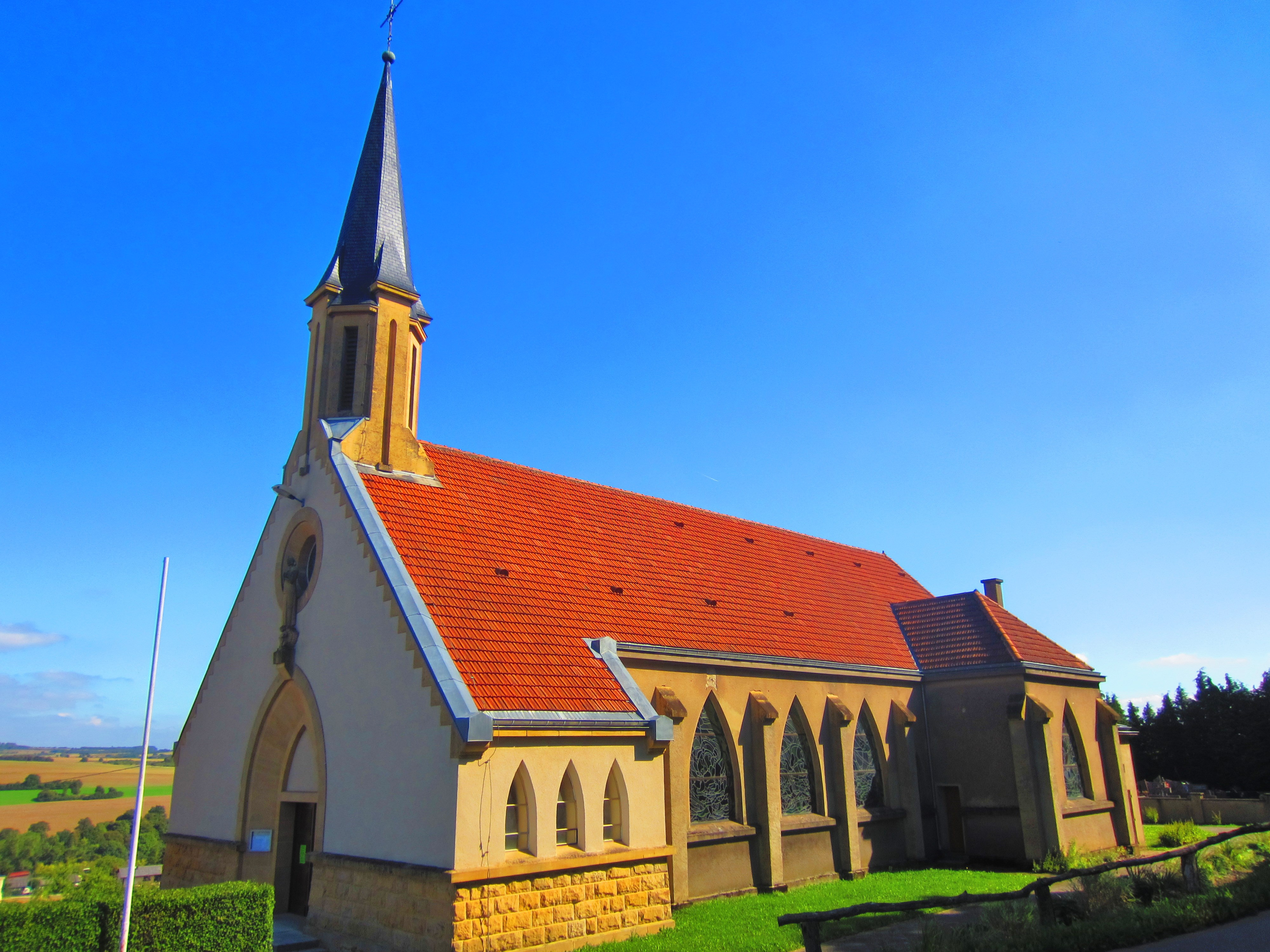 Leiding church